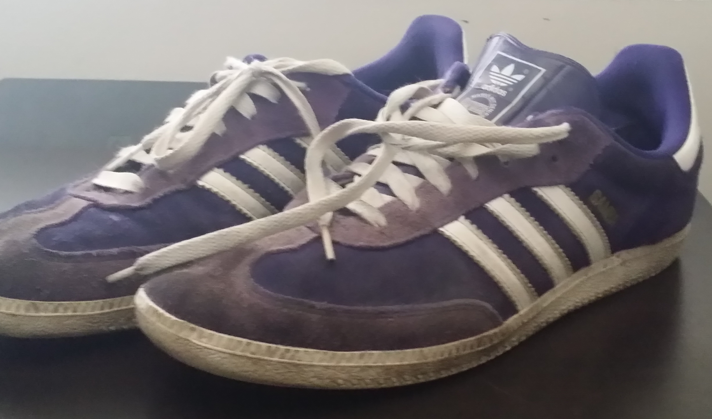 A pair of Adidas Samba shoes featuring the three stripes